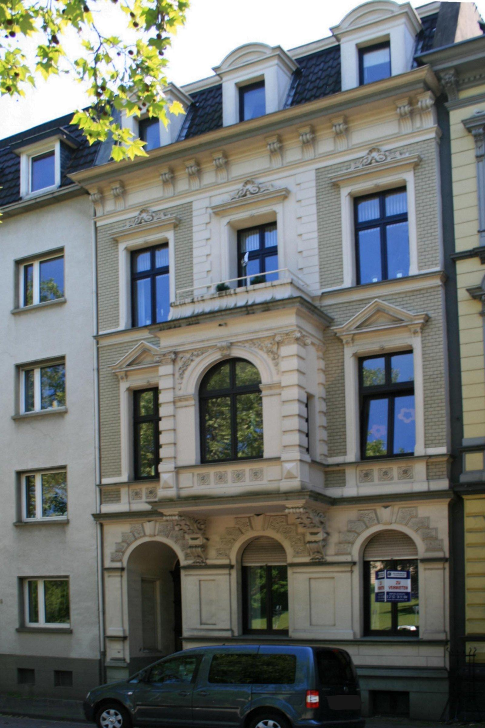 Cultural heritage monument No. H 011 in Mönchengladbach